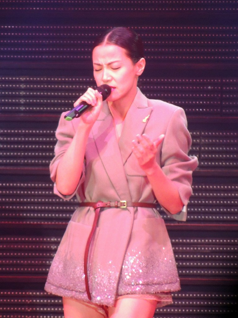 Ultimate Song Chart Awards 2013